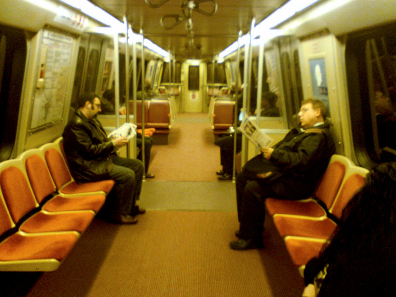 Breda 3283, a car on the Washington Metro system, with an experimental floor plan.